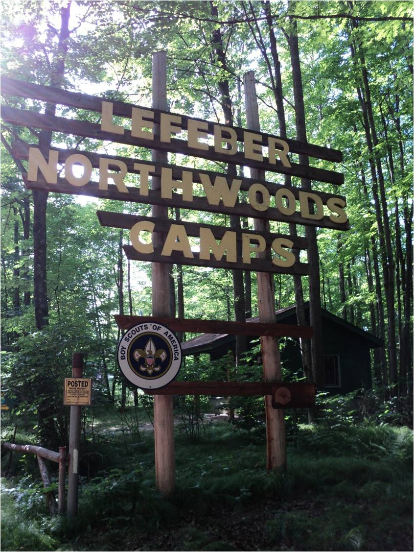 The sign at the main entrance to LeFeber Northwoods Scout Camp in Wisconsin (see Three Harbors Council)